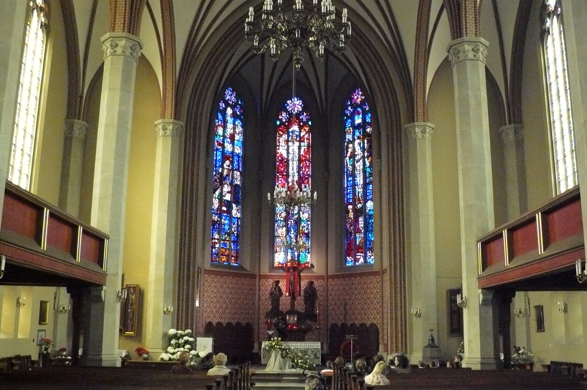 Poznan, Fredry street, church interior.